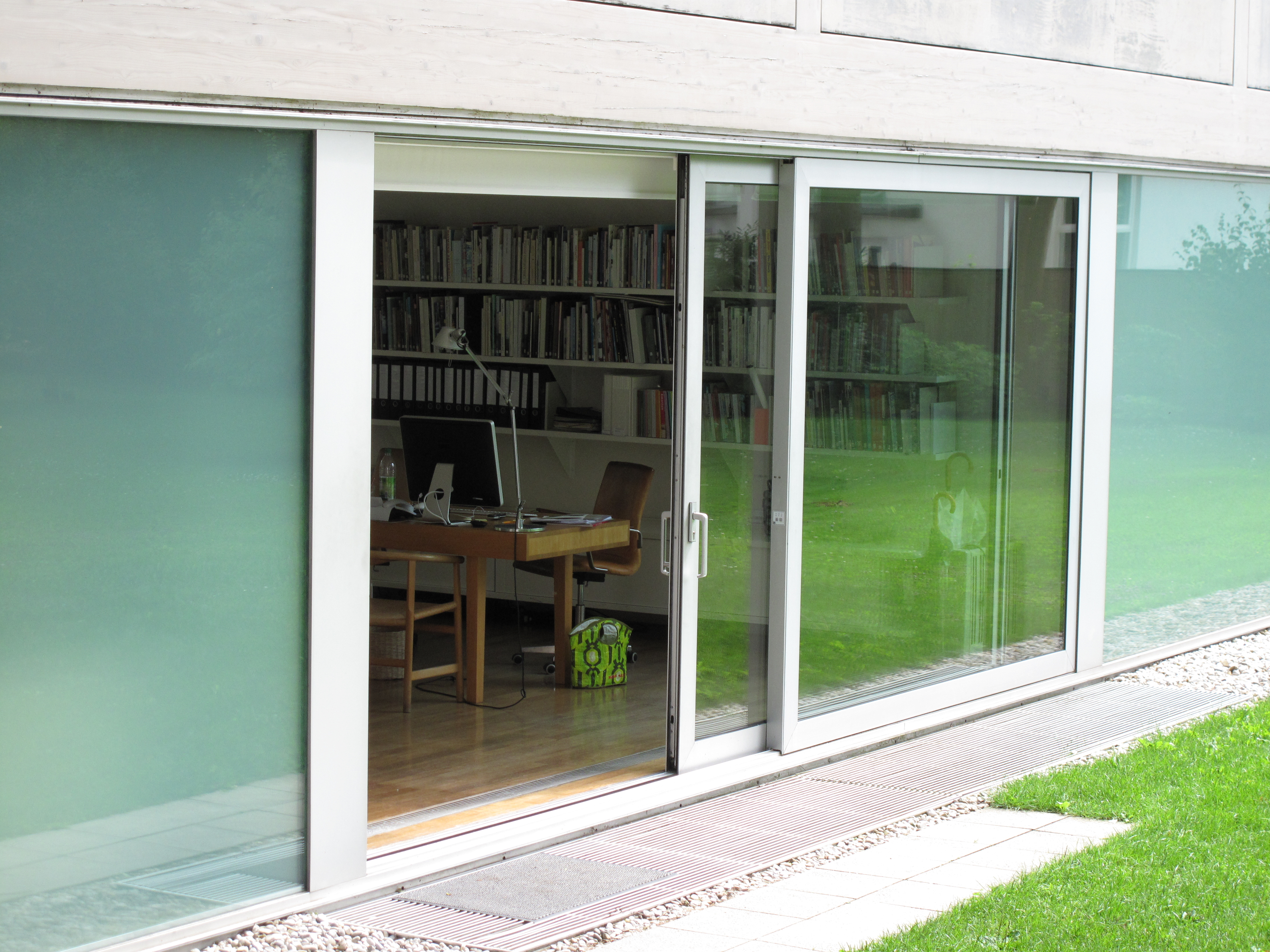 The entrance to the museums-building of the Sammlung Goetz in Munich (district: Oberföhring).